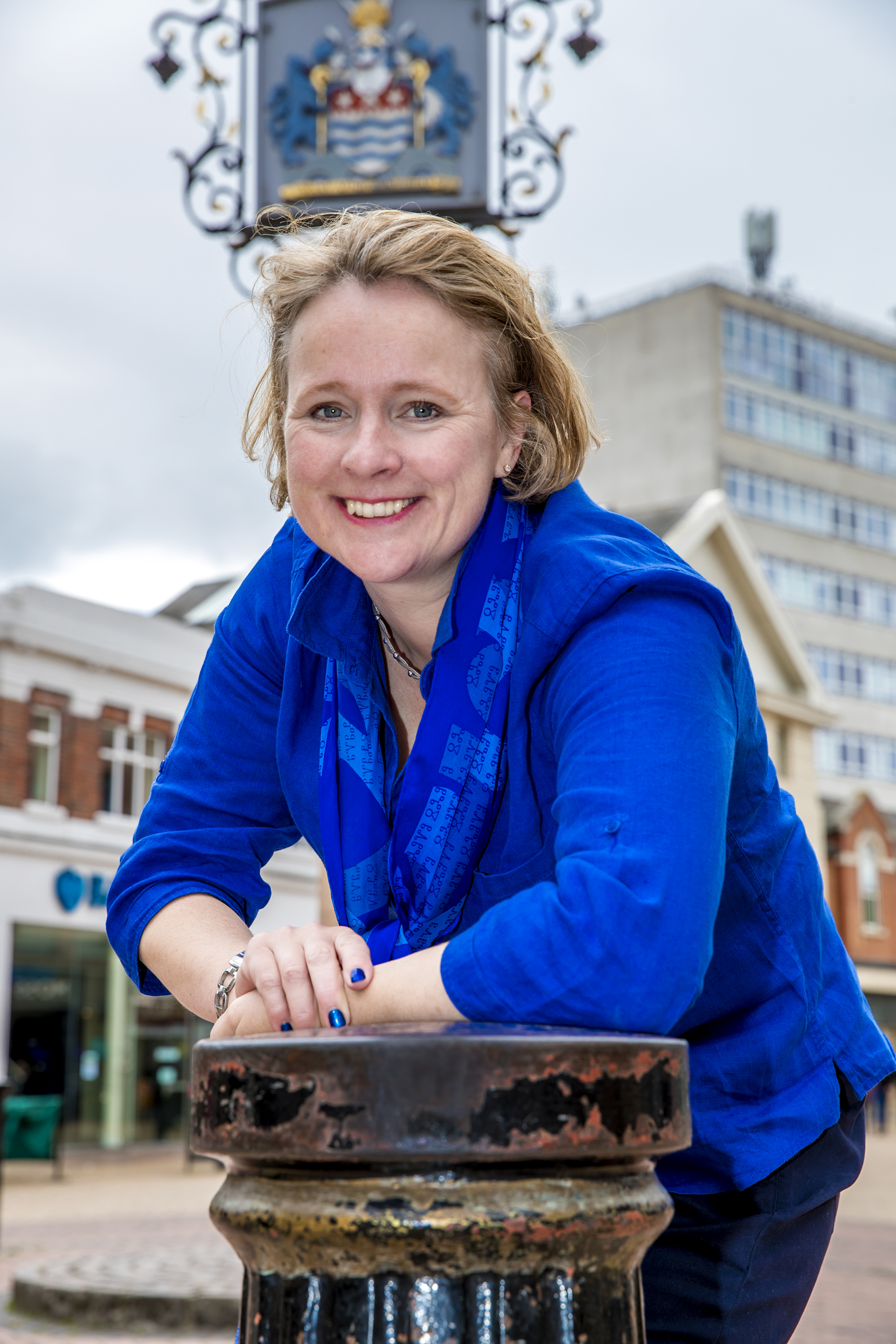 Vicky Ford